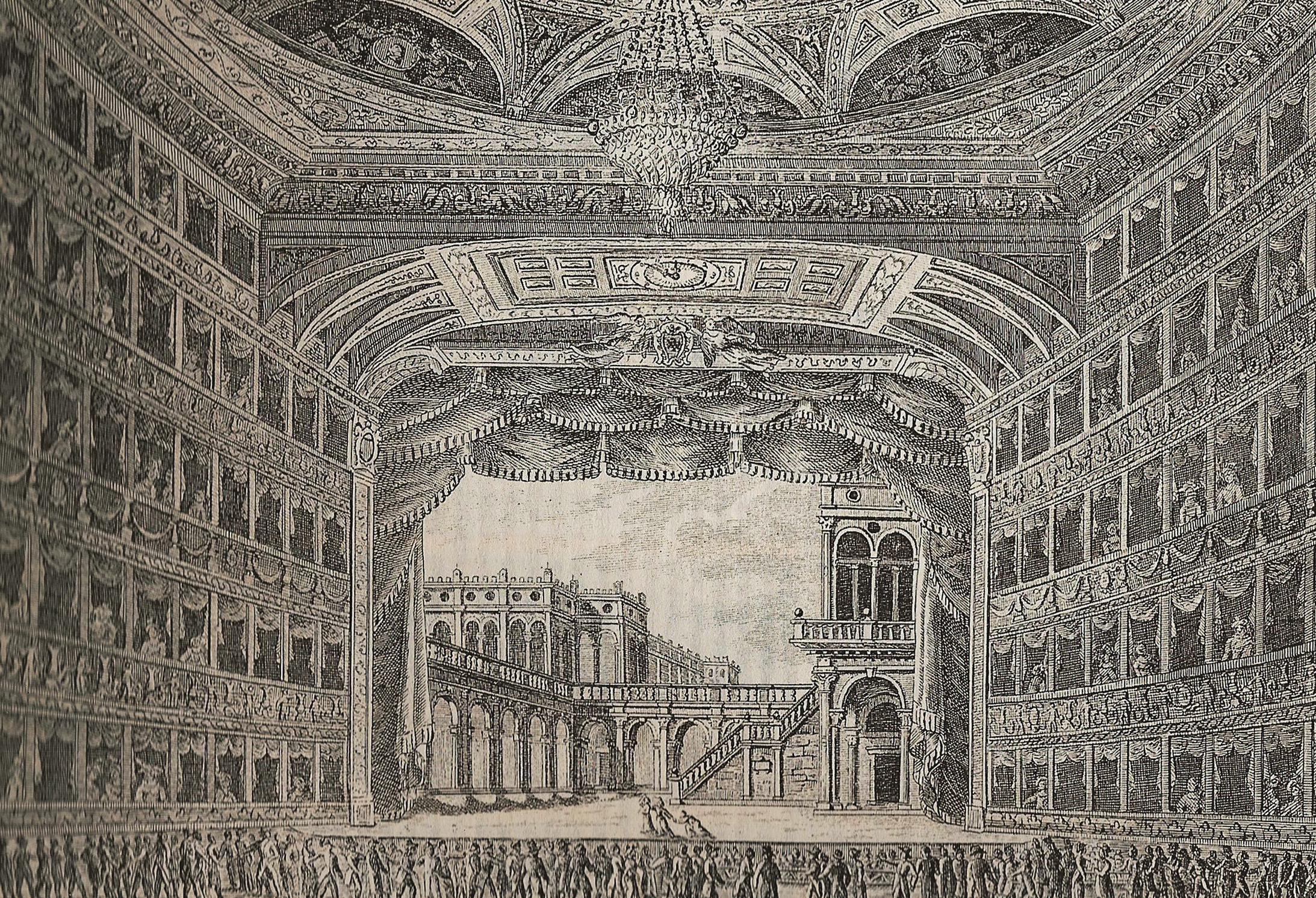 La Fenice-1st theatre-1829